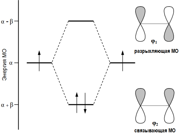 MO ethylene